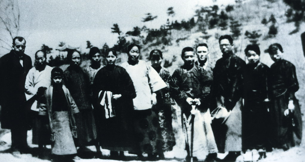 Soong Ching-ling and her relatives and friends were investigating the location of Sun Yat-sen's cemetery in Nanjing.